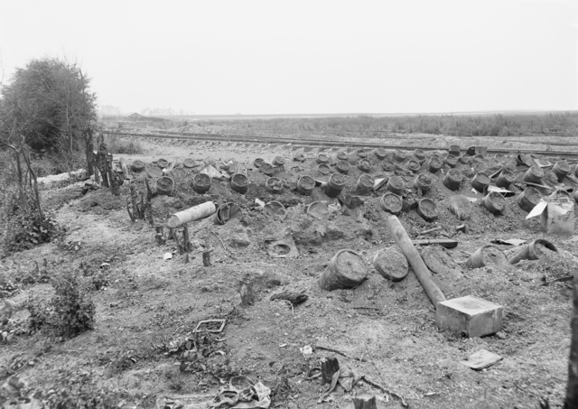 AWM caption : "Dernancourt, France. 14 June 1918. A set of 180 gas projectors alongside the Albert-Amiens railway in front of the Casualty Clearing Station at Dernancourt. These projectors were electrically fired the same night immediately preceding an attack which was successful. The tins and rubbish scattered about serve for camouflage." Comment : These are Livens Projectors